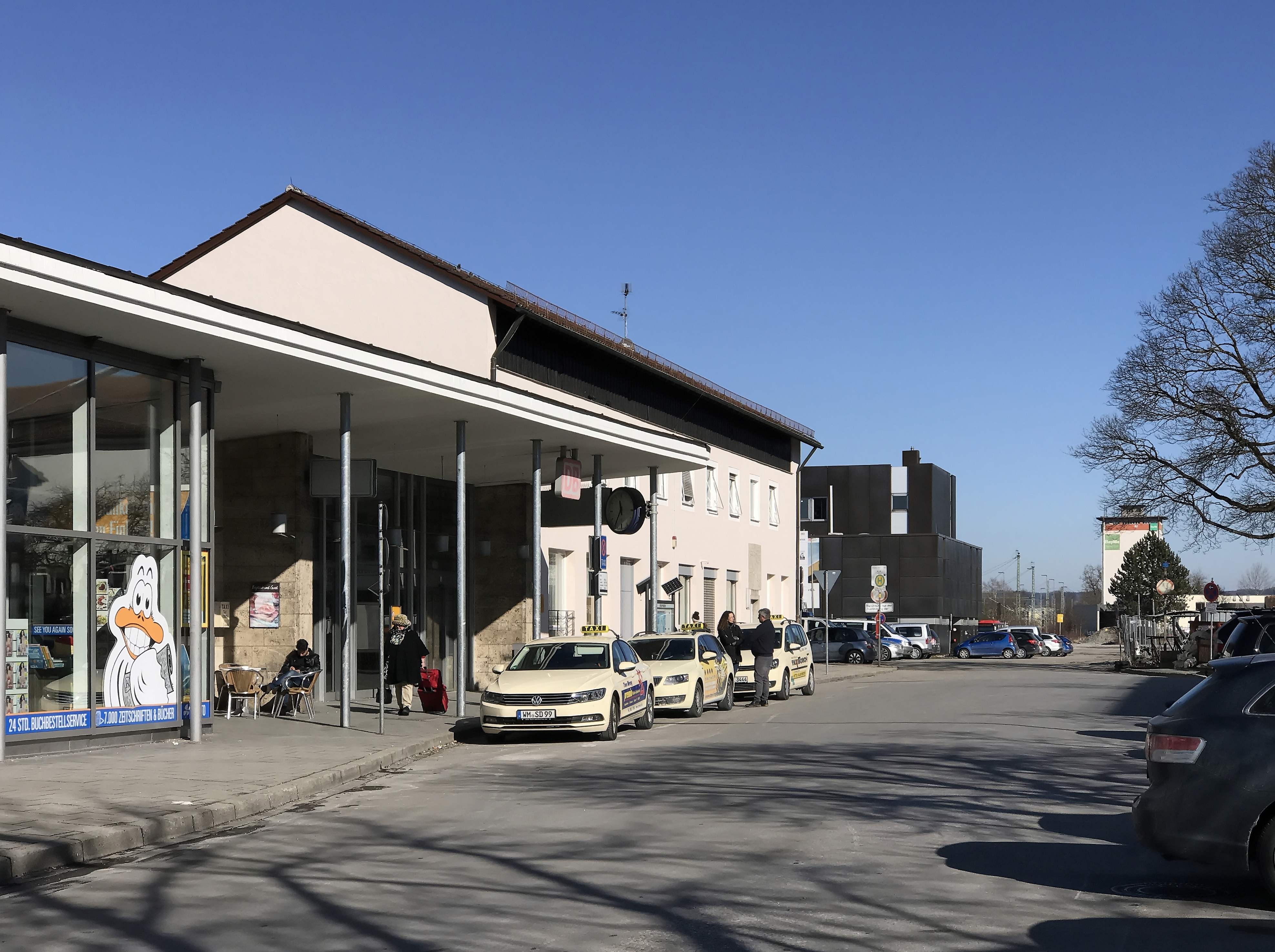 Railway station Weilheim (Upper Bavaria, Germany), February 2018